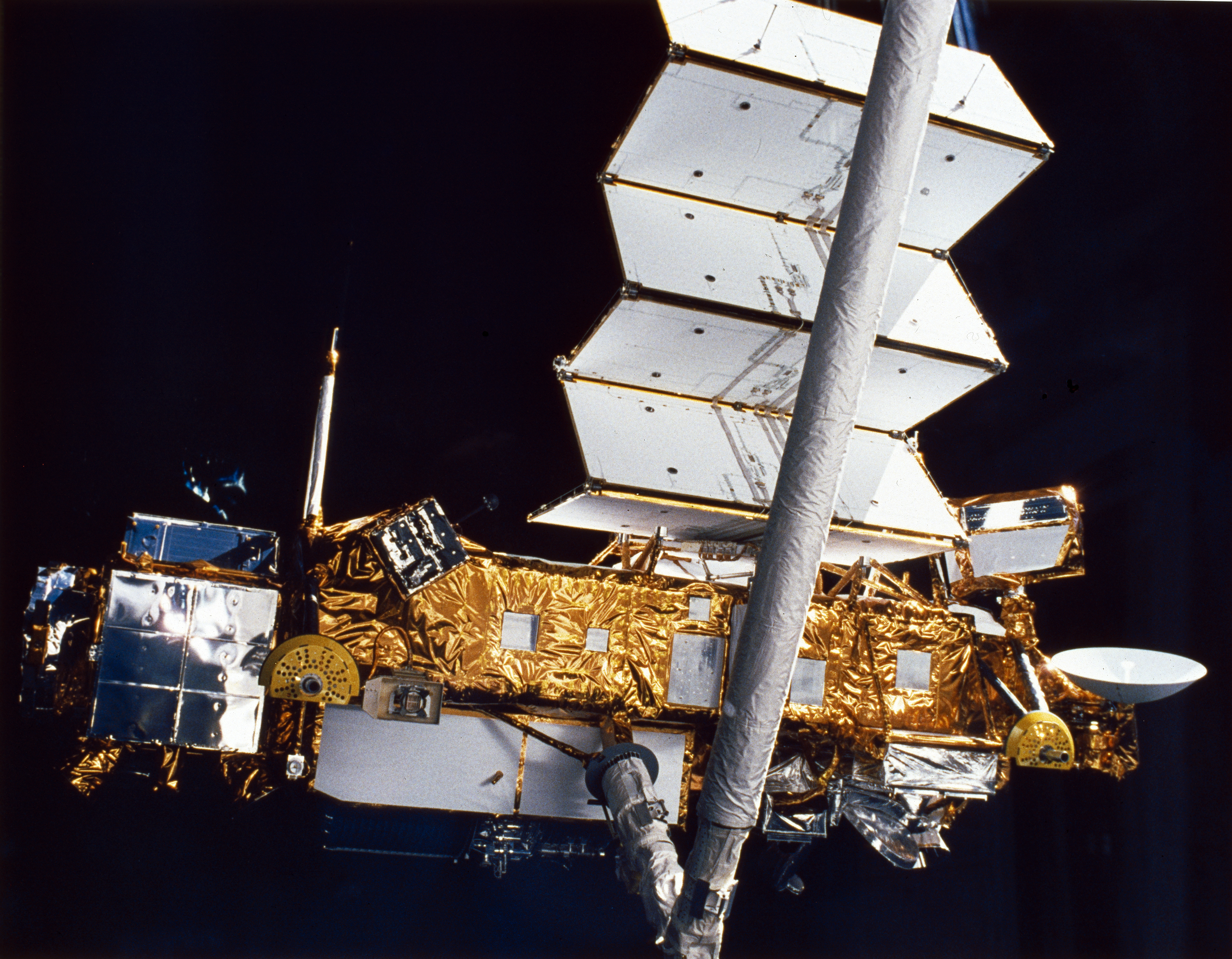 The UARS is grappled by the RMS on STS-48. The Upper Atmosphere Research Satellite (UARS) is in the grasp of the remote manipulator system (RMS) end effector above the payload bay (PLB) of the Earth-orbiting Discovery, Orbiter Vehicle (OV) 103 during STS-48 pre-deployment checkout procedures. UARS solar array (SA) is in the process of being deployed. Visible on the UARS are (top to bottom): the high-gain antenna (HGA); the Solar Stellar Pointing Platform (SSPP) (below HGA); outrigger truss; the Microwave Limb Sounder (MLS) spectrometer (above SA); the SA; RMS grapple fixture; the Particle Environment Monitor (PEM) Zenith Energetic Particle System (ZEPS) (top next to second outrigger truss); the PEM Nadir Energetic Particle System (NEPS) magnetometer (below ZEPS); an outrigger truss and keel pin; and the Multimission Modular Spacecraft (MSS).